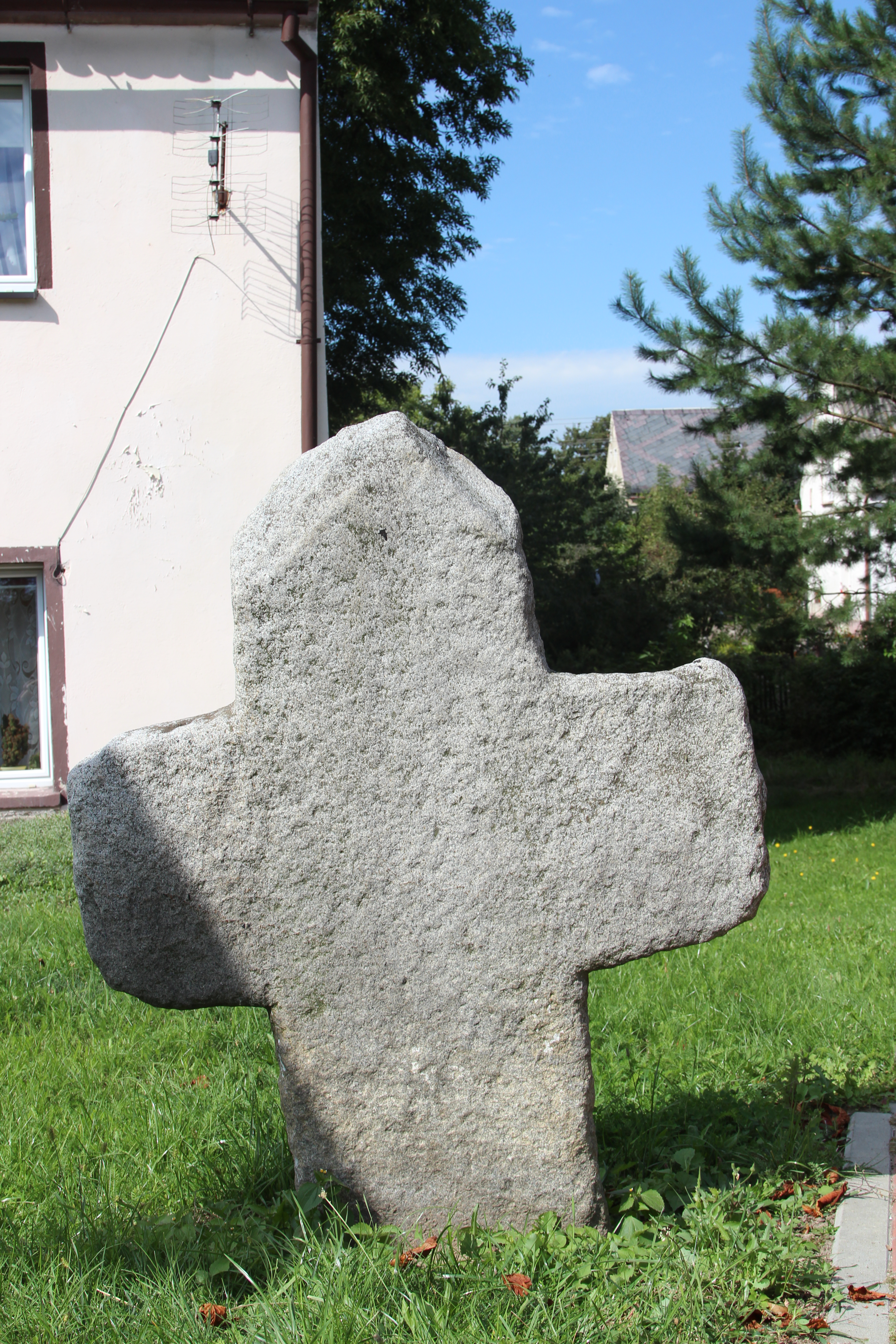 Stone cross in Skoroszyce